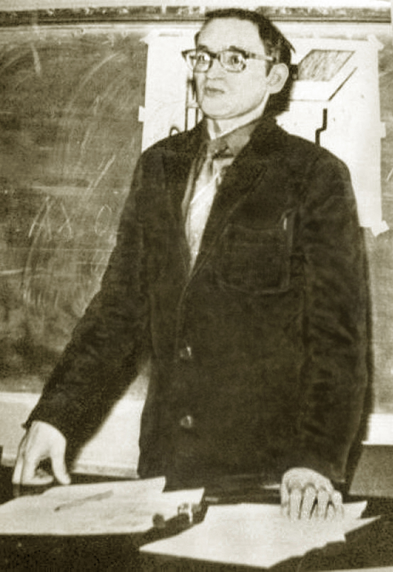 Tsybulkin Eduard. Professor of Medicine